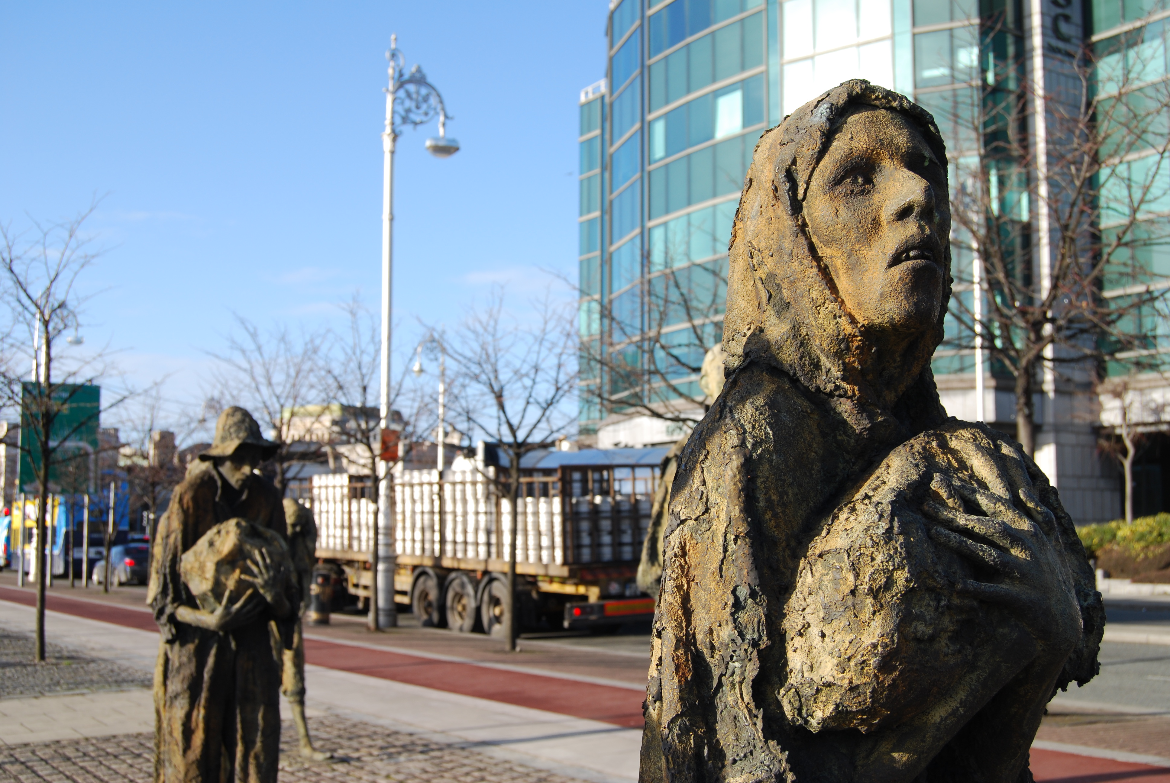 Famine memorial, Dublin, Irealand.